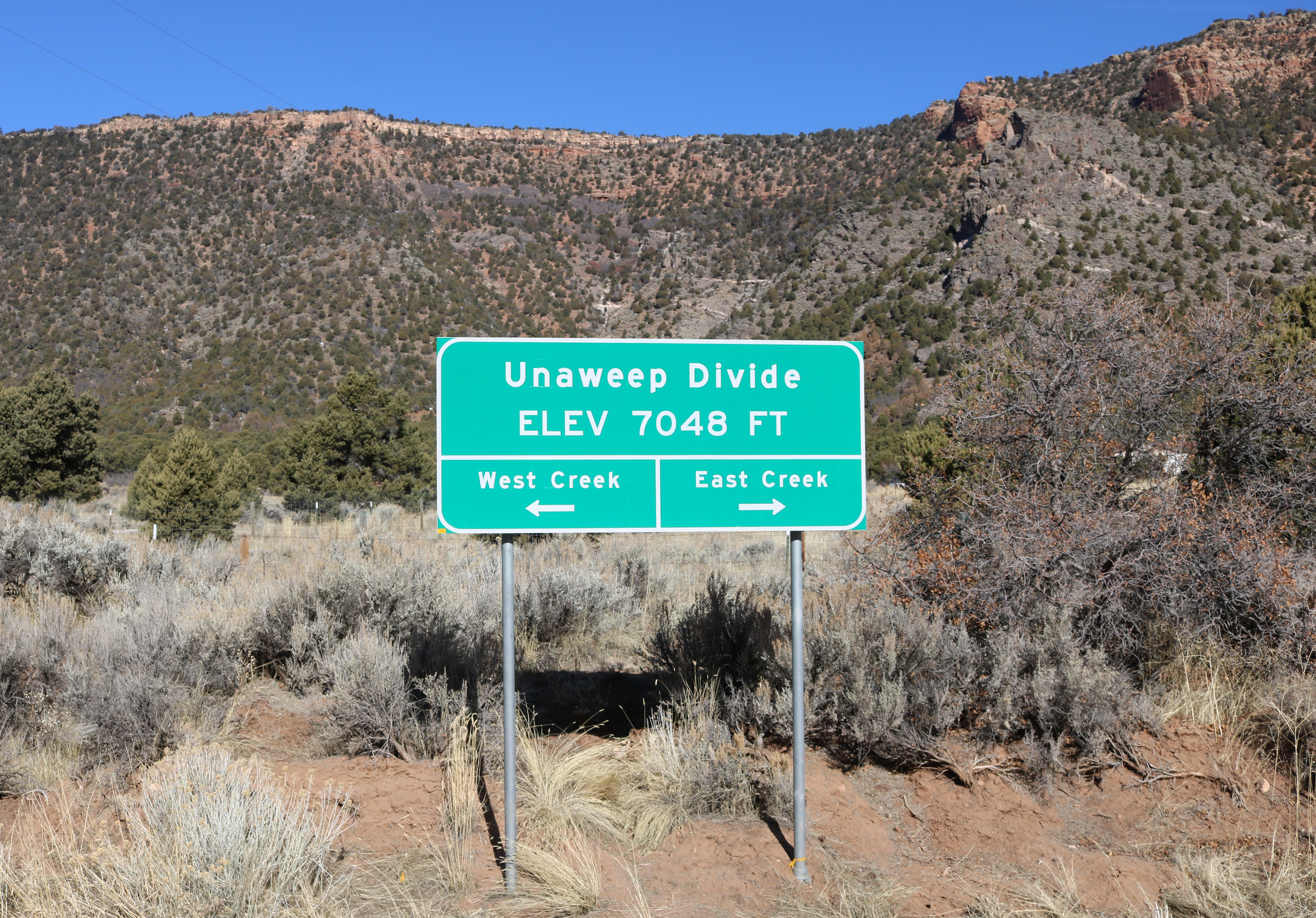 The sign for Unaweep Divide in Unaweep Canyon. The divide separates the East Creek and West Creek watersheds in the canyon and is near the middle of the canyon.